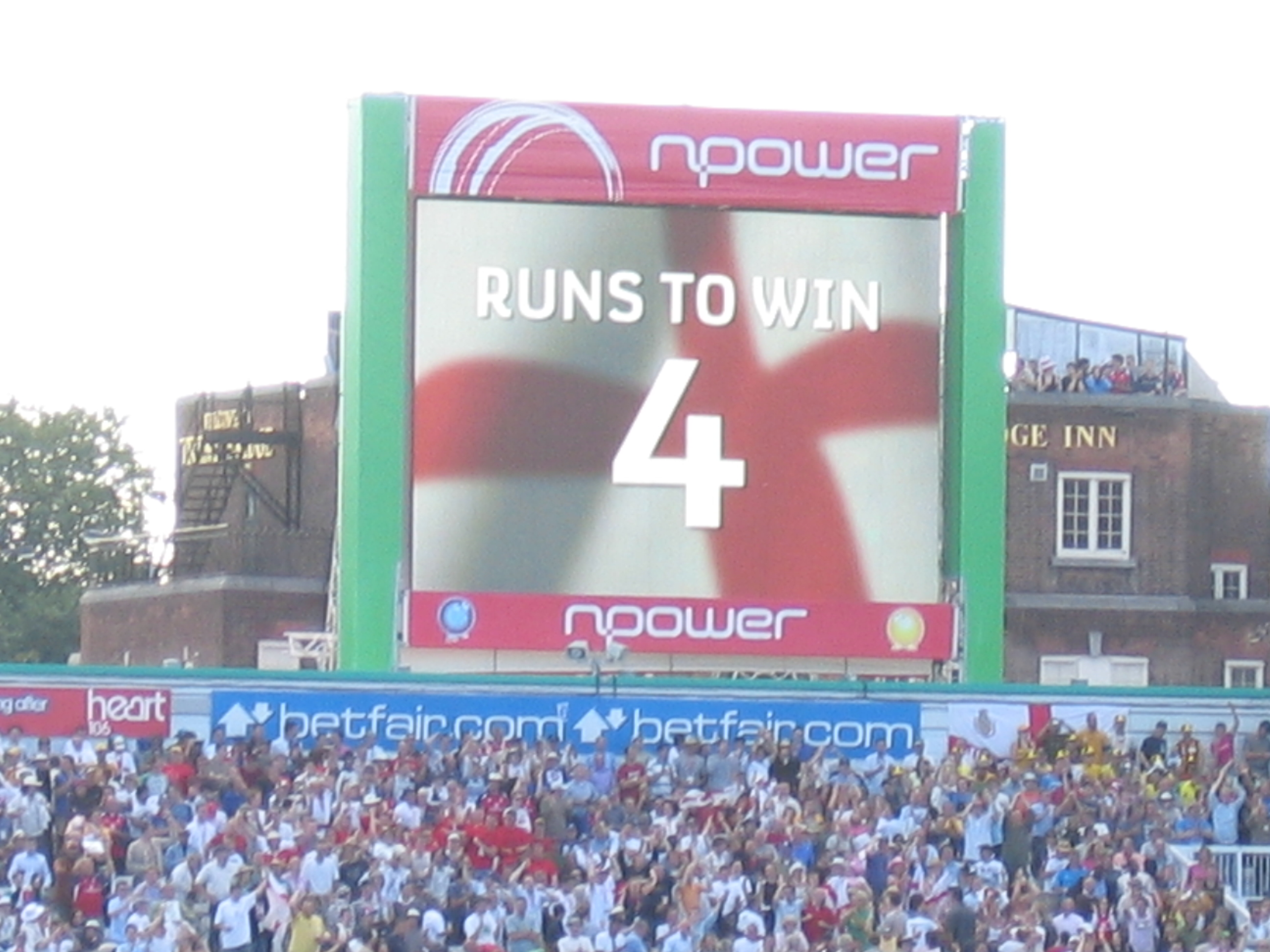 "Author:Craig Cameron (me), taken 28/8/2005 @ Trent Bridge. Quite happy for anyone to use." Fans celebrate in the William Clarke Stand, with England 4 runs from winning the historic 2005 Test Match against Australia